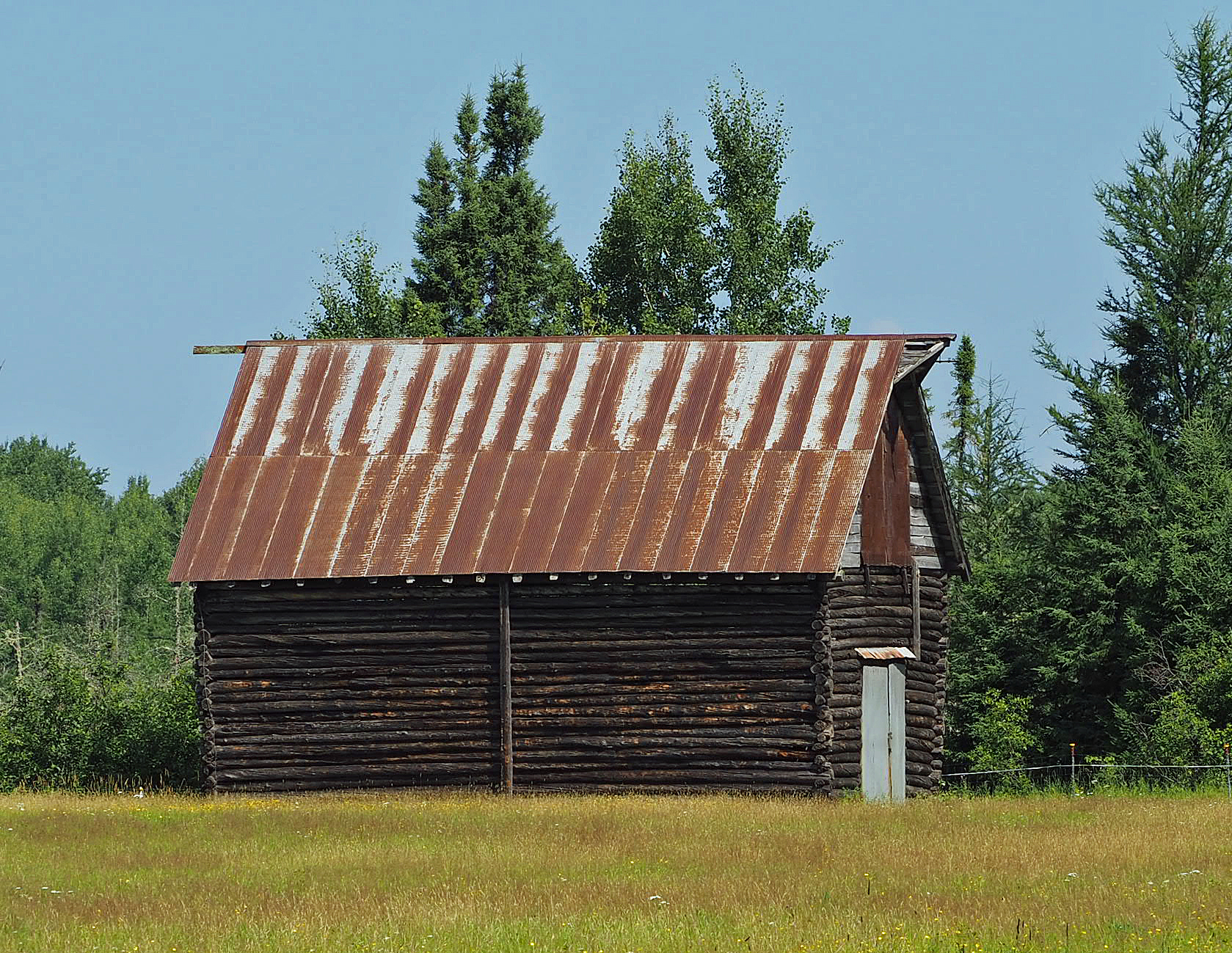 Waino Tanttari Field Hay Barn, 8261 Wilen Road, Waasa Township, Minnesota, USA. Viewed from the south.